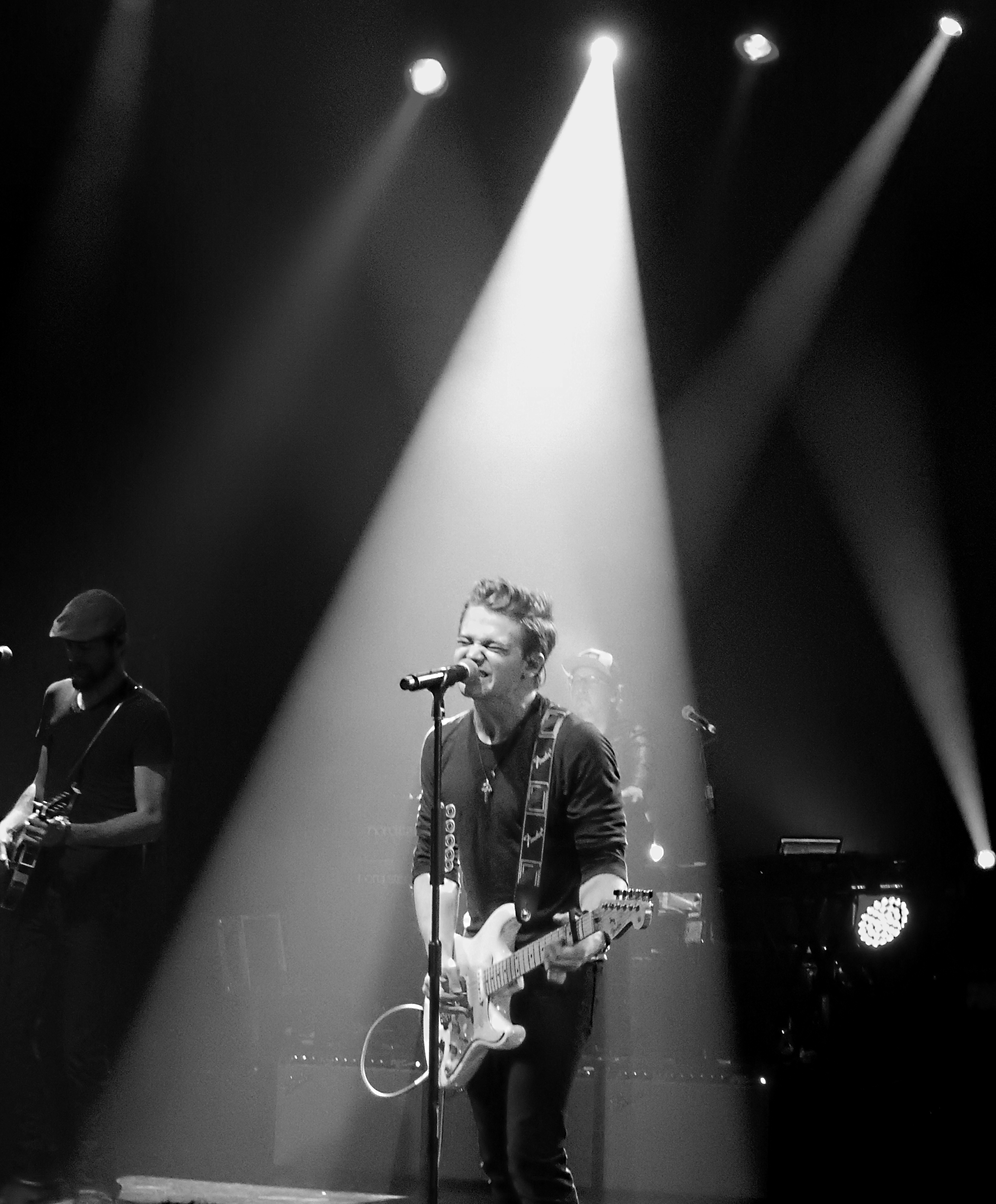 Hunter Hayes, Koko, London